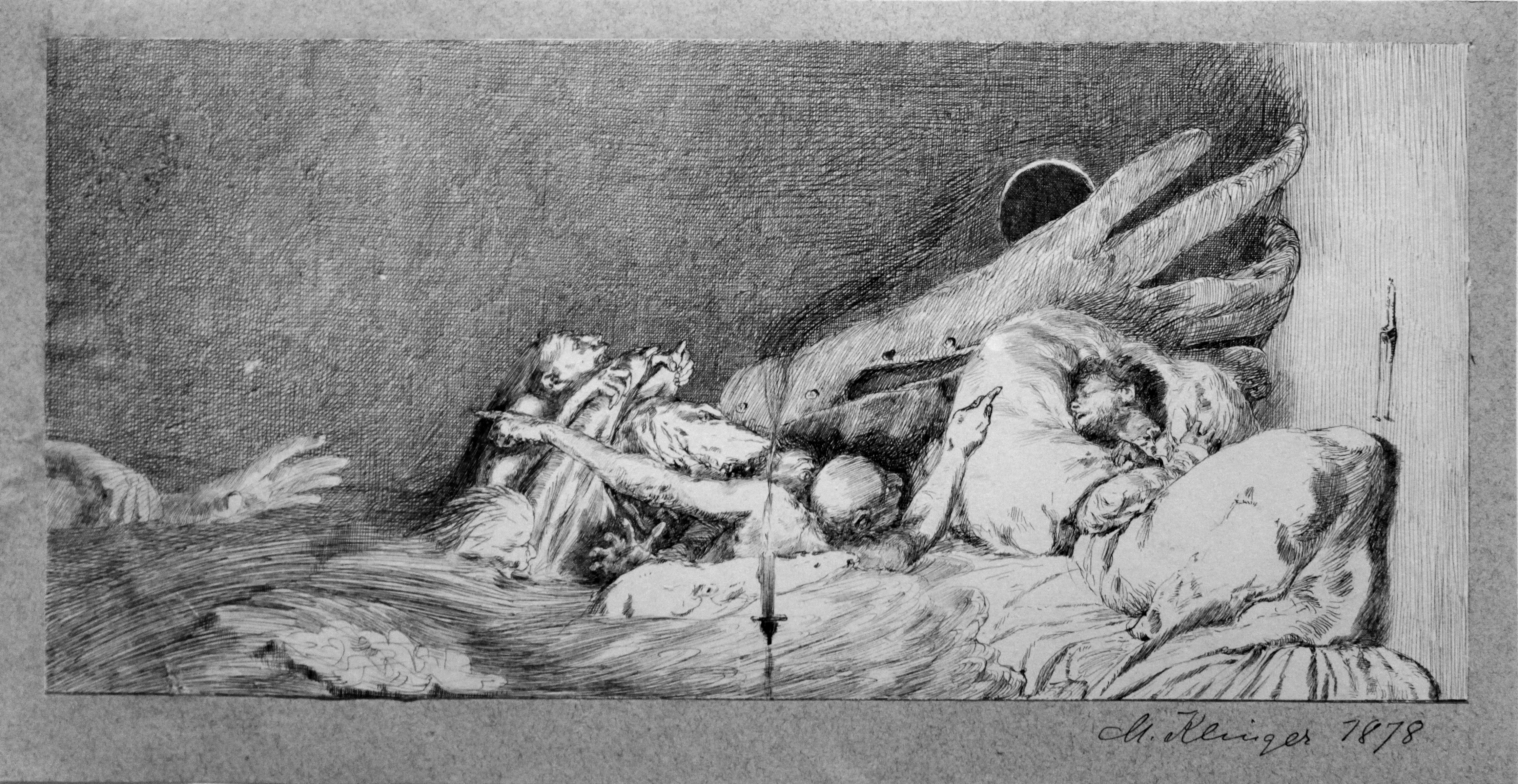 Fantasies about a found glove, dedicated to the lady who lost it (7/10: Fears)